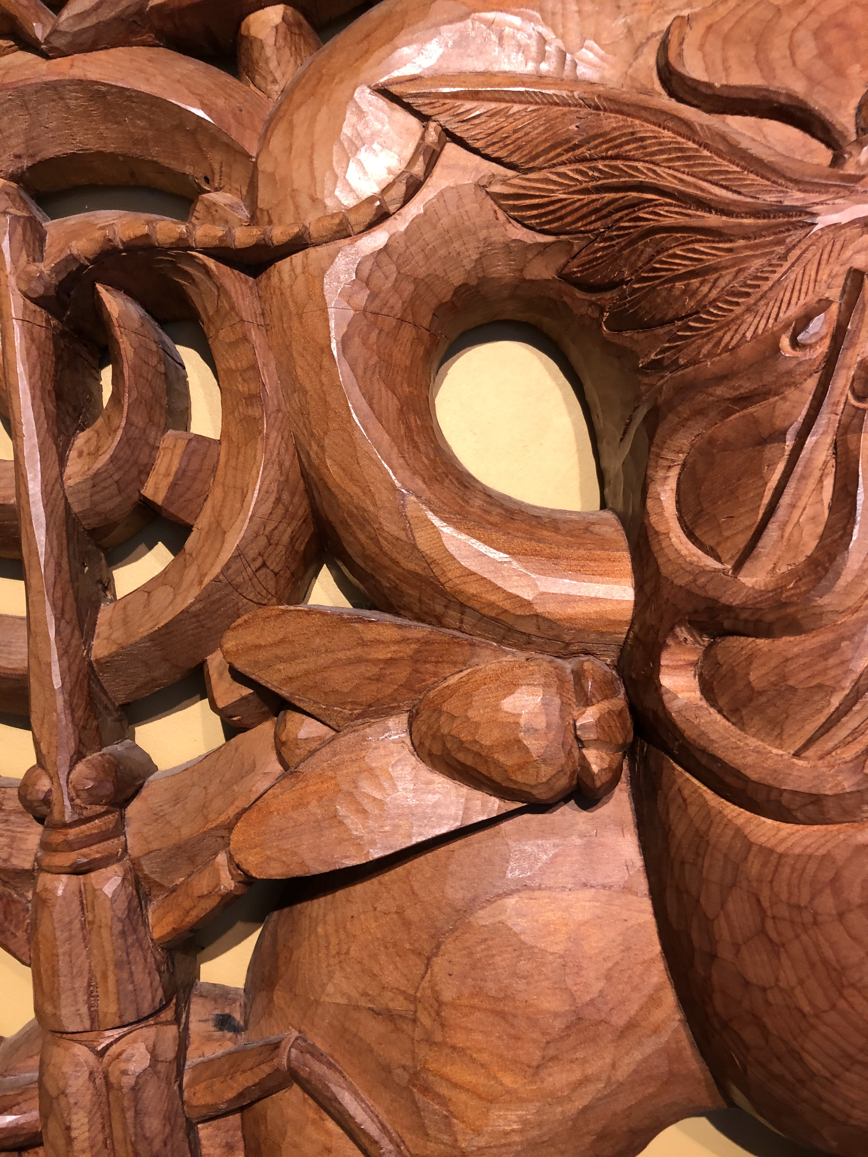 Blue blowfly carved by Denis Conway onto a Maori pare, on display at the New Zealand Arthropod Collection at Landcare Research, Auckland.